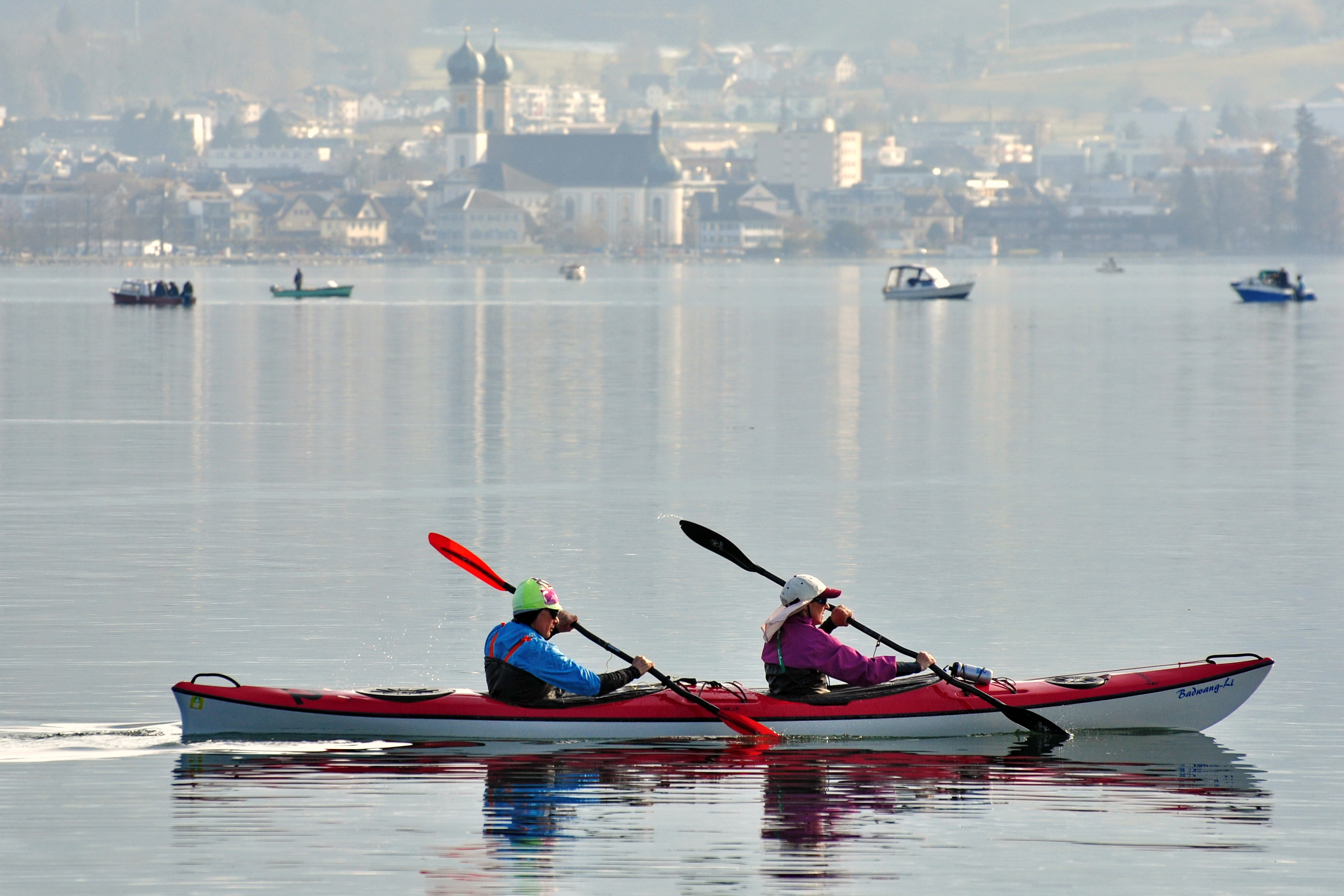 So-called Stampf, i.e. the river delta respecitively confluence of Jona river and Obersee (upper Lake Zürich) in Jona, Switzerland, Lachen in the background.